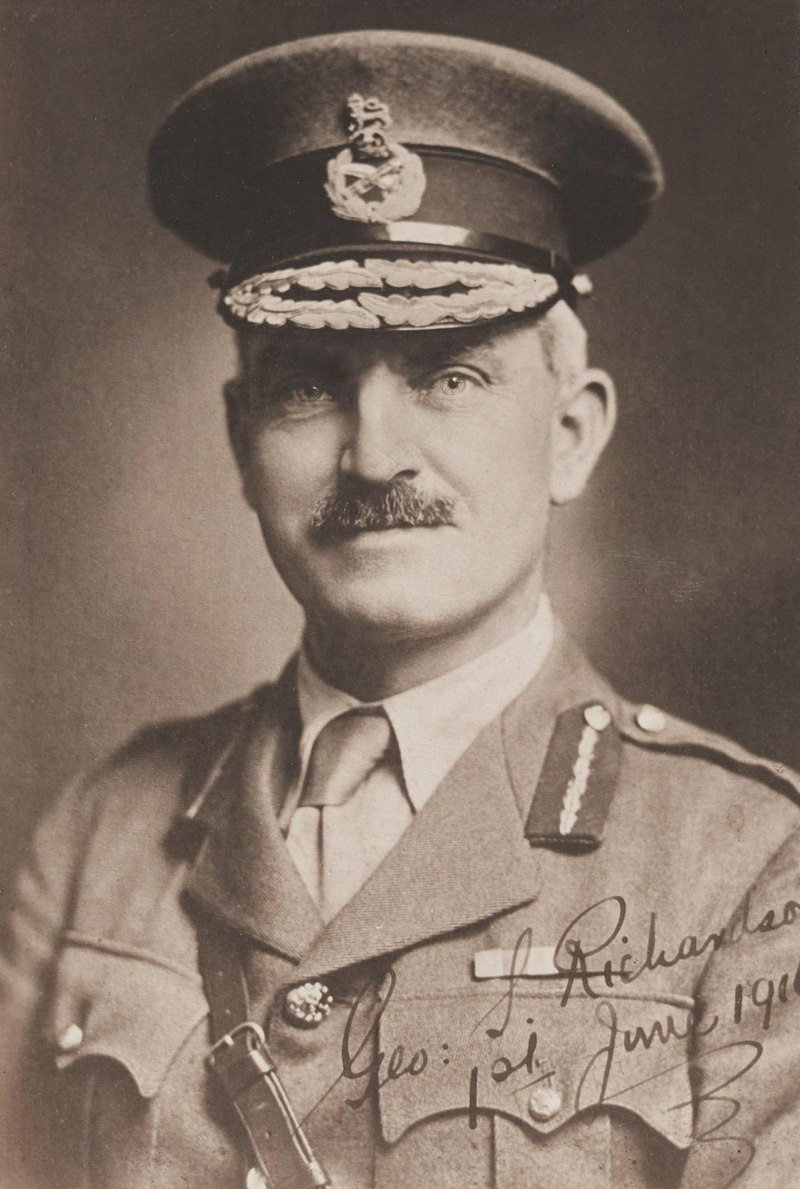 Brigadier-General G.S. [George Spafford] Richardson 15/209 - C.B., C.M.G., C.B.E. Brought to notice of the Secretary of State for War for valuable services rendered in connection with the war. Awarded C.B. [Companion of the Bath] for services rendered in connection with the war, 1917. The C.M.G. [Companion of St Michael and St George] for distinguished service in the field, 1915. CBE [Commander of British Empire] on 31 December 1918. Also M.I.D [mentioned in despatches]. Awarded Legion of Honour, Chevalier (France) in recognition of valuable services rendered by him and the Croix de Guerre (Belgium) for distinguished services rendered during the course of the campaign. He was made a KBE [Knight of British Empire] in June 1925.